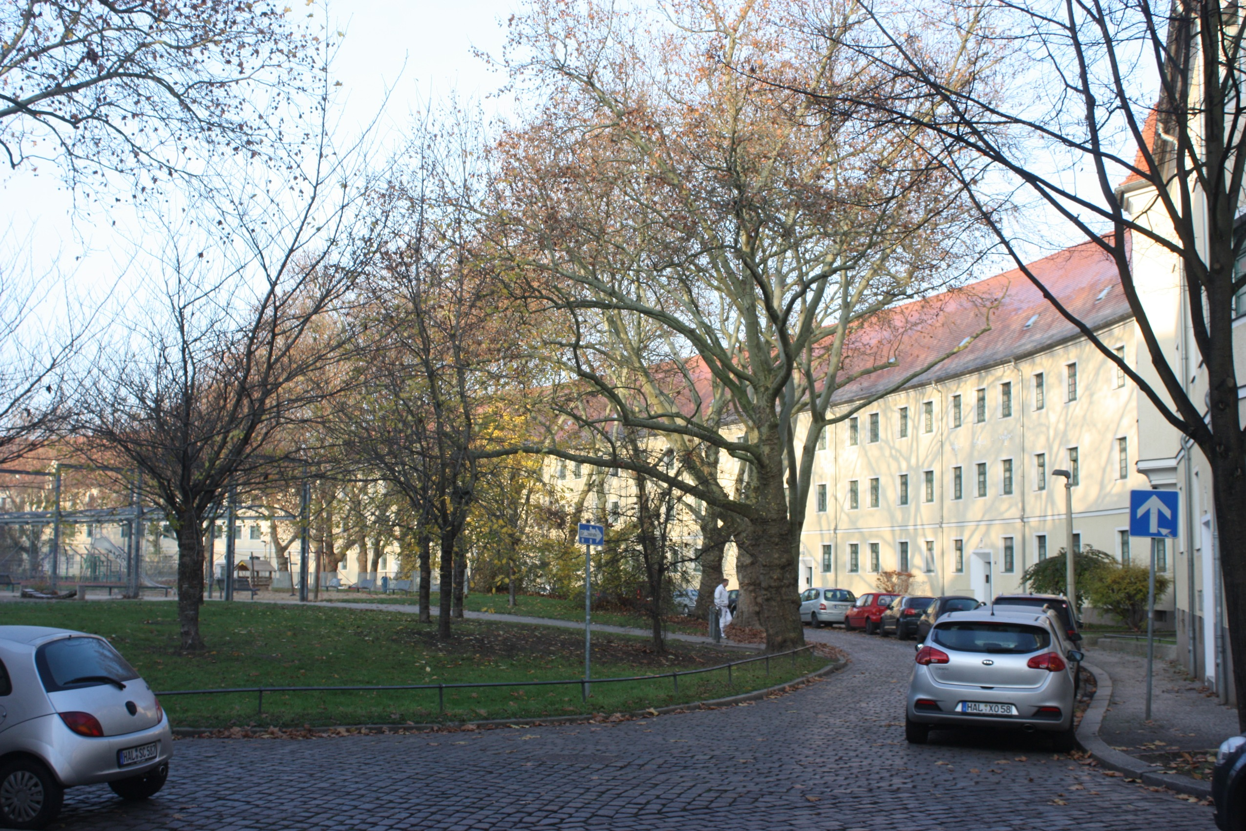 Halle (Saale), the Johannesplatz